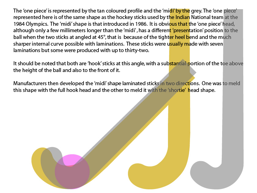 A comparion of the shapes of the 'one-piece' i.e. a head made from one piece of bent timber and the laminated timber 'midi' shape introduced in 1986.